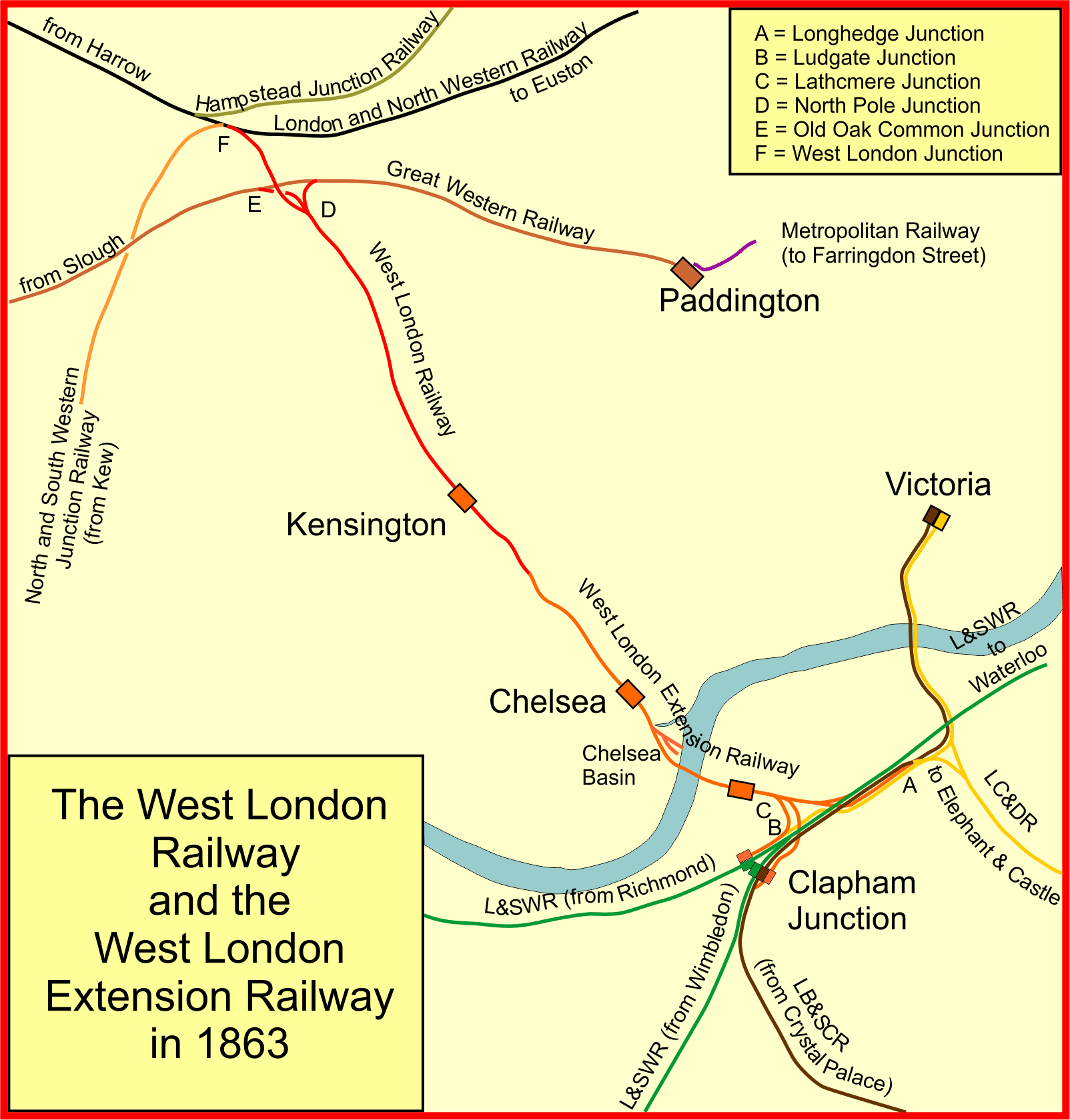 Map of West London Railway and West London Extension Railway, UK, in March 1863